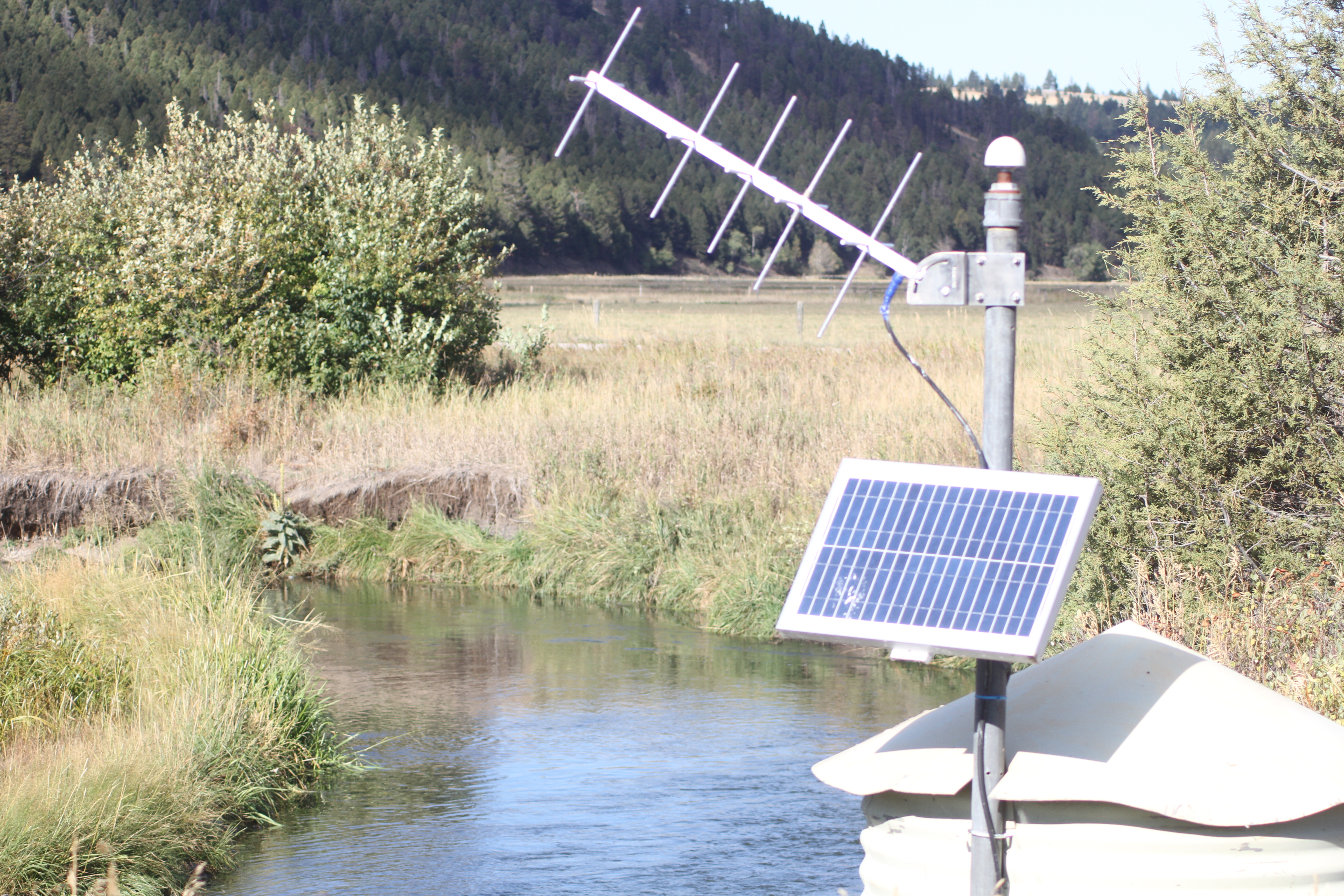 DNRC Stream Gage below Nevada Reservoir on Nevada Creek